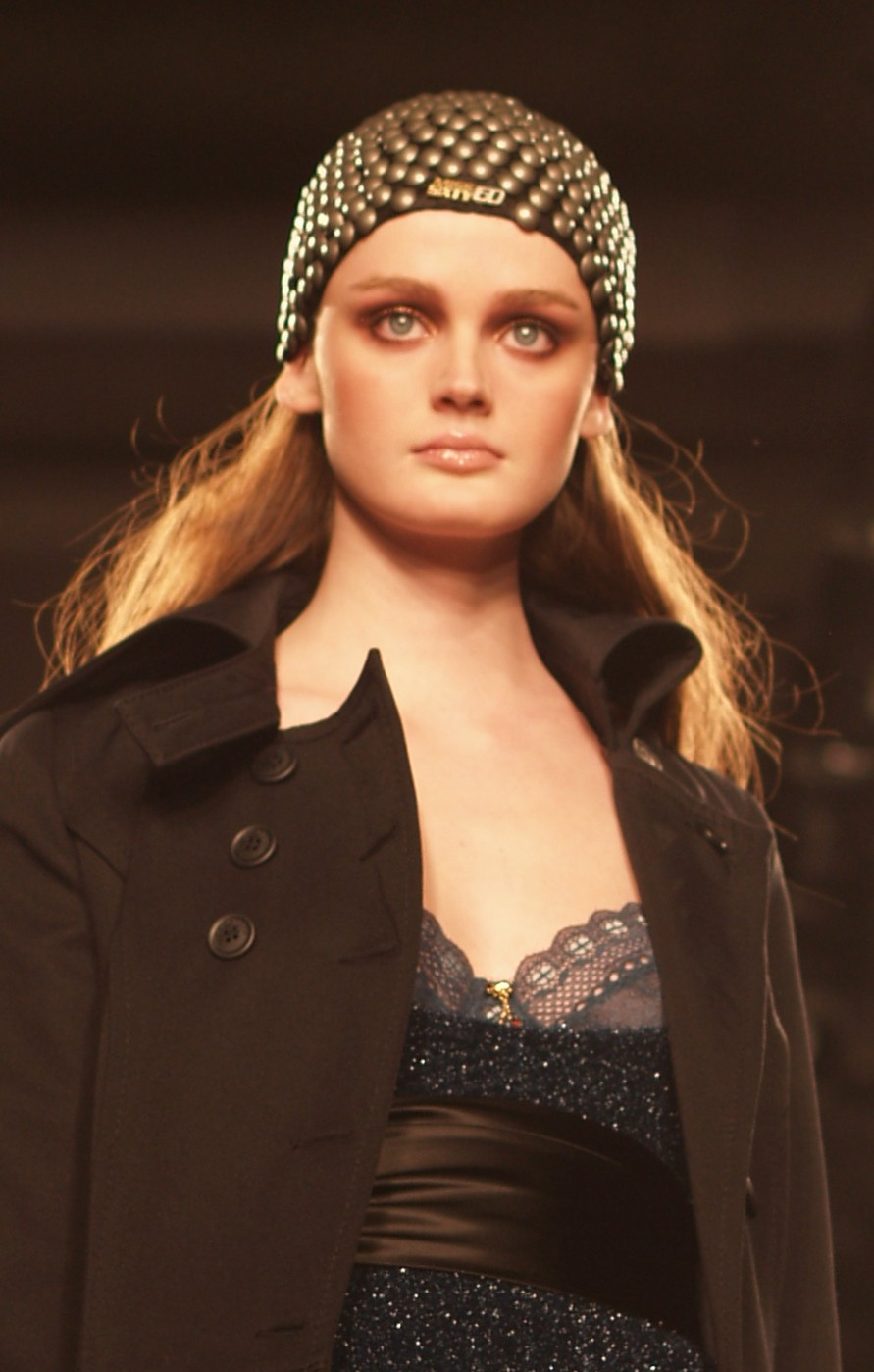 Lisa Cant modeling for Miss Sixty, Fall 2007 New York Fashion Week.